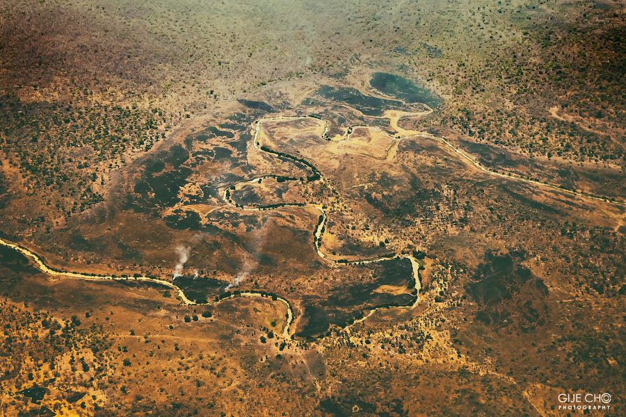 Aerial view of a region of South Sudan